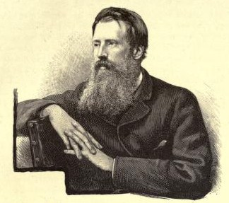 Portarit sketch of H W B davis